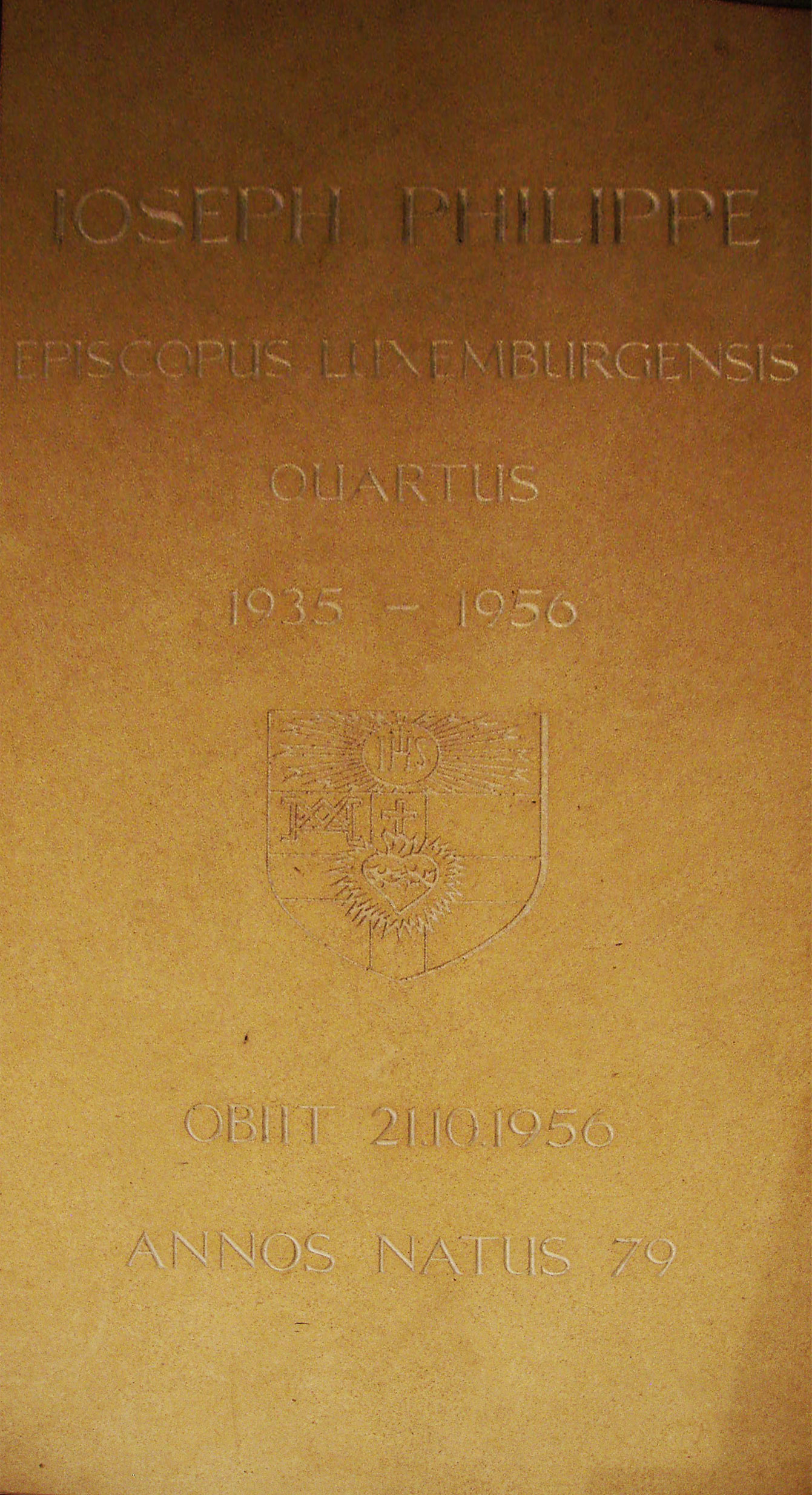 Gravestone of Bishop Joseph Philippe + October 21 1956, in the Crypt of the Cathedral of Luxembourg